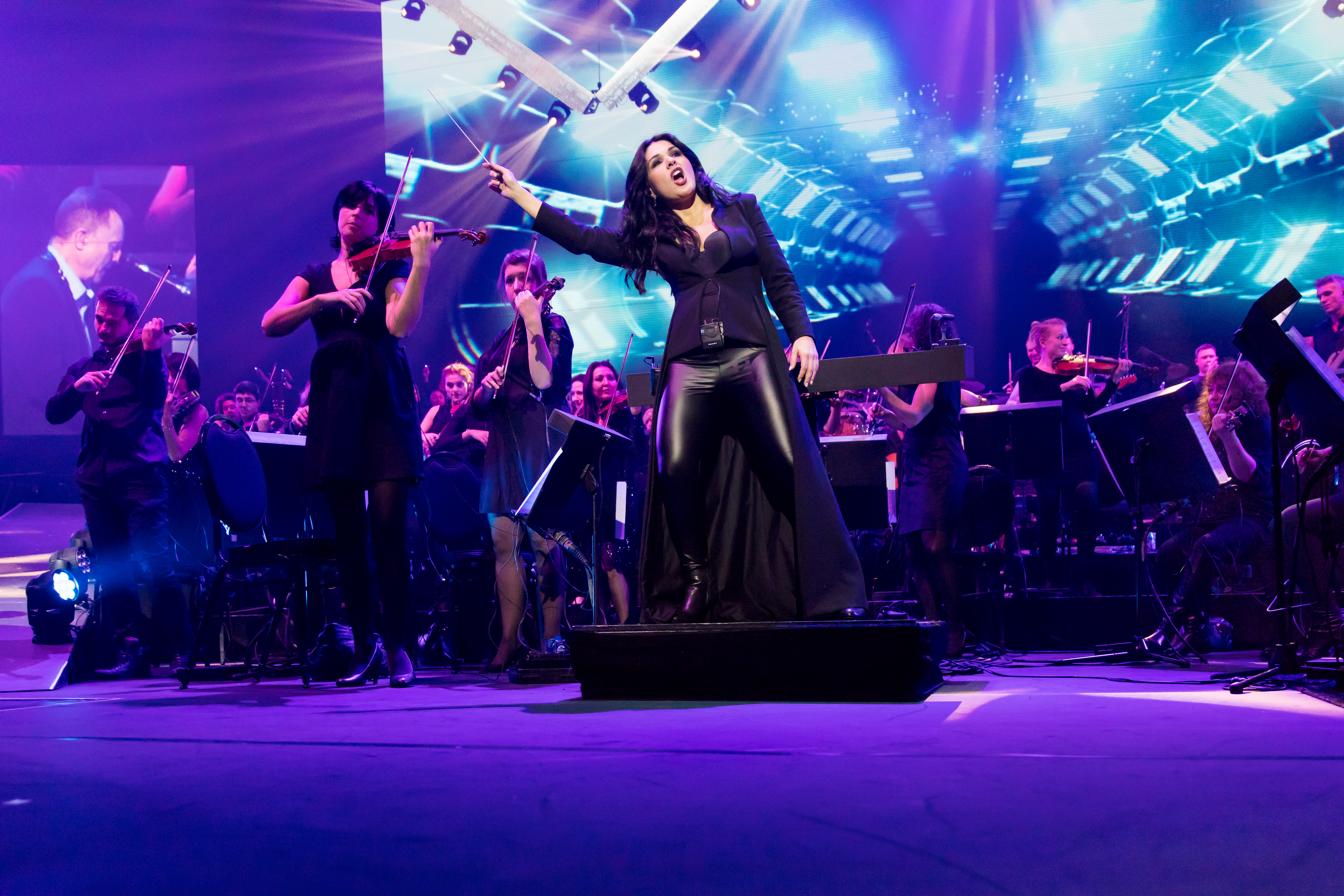 during Night of the Proms at SAP Arena, Mannheim, Baden Württemberg, Germany on 2016-11-25, Photo: Sven Mandel Simple Minds, Natasha Bedingfield, Stefanie Heinzmann, John Miles, Ronan Keating, Time For Three